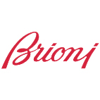 Brioni Logo